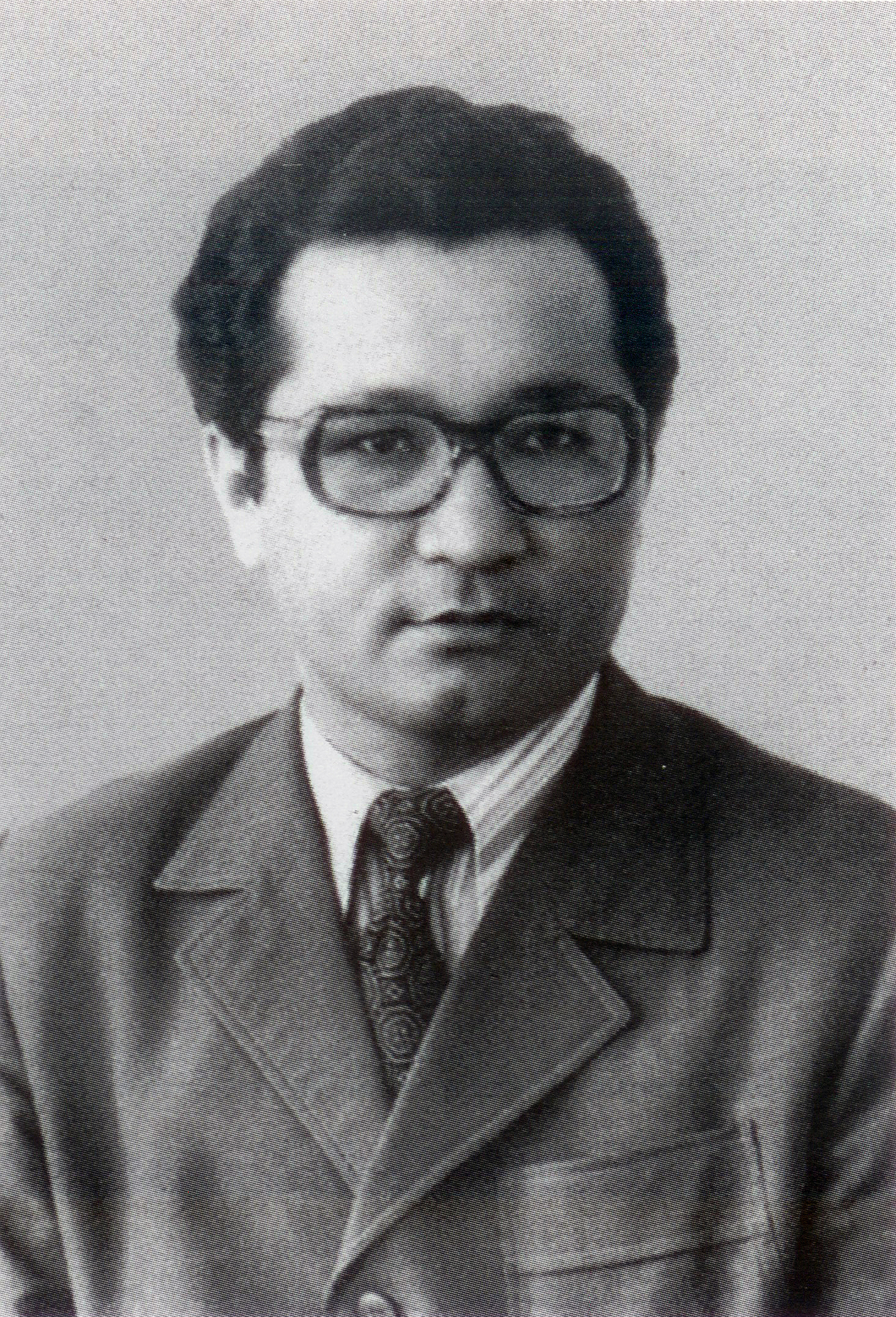 K. Ushbayev - Doctorate